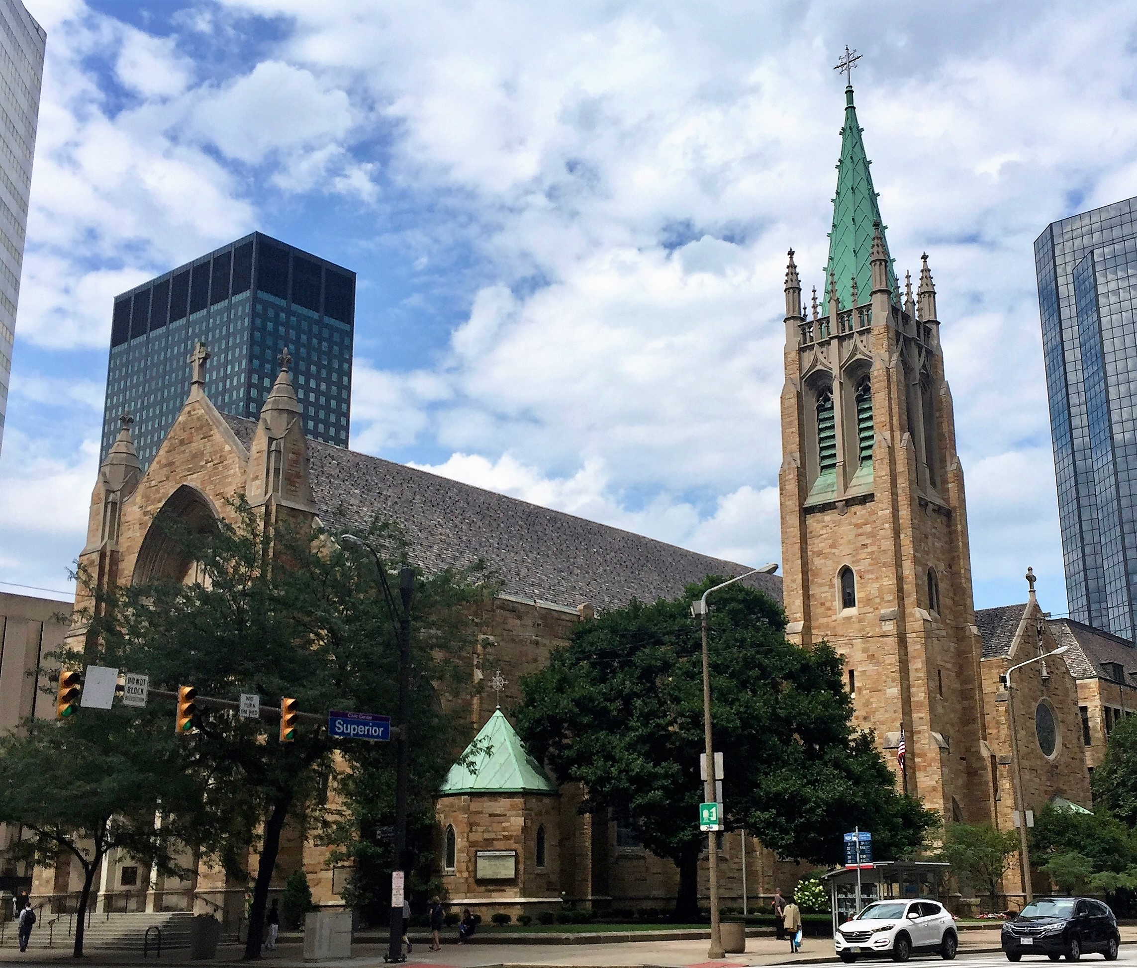 The Cathedral of St. John the Evangelist, Cleveland, OH